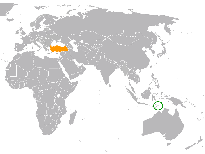 Map showing locations of both East Timor and Turkey